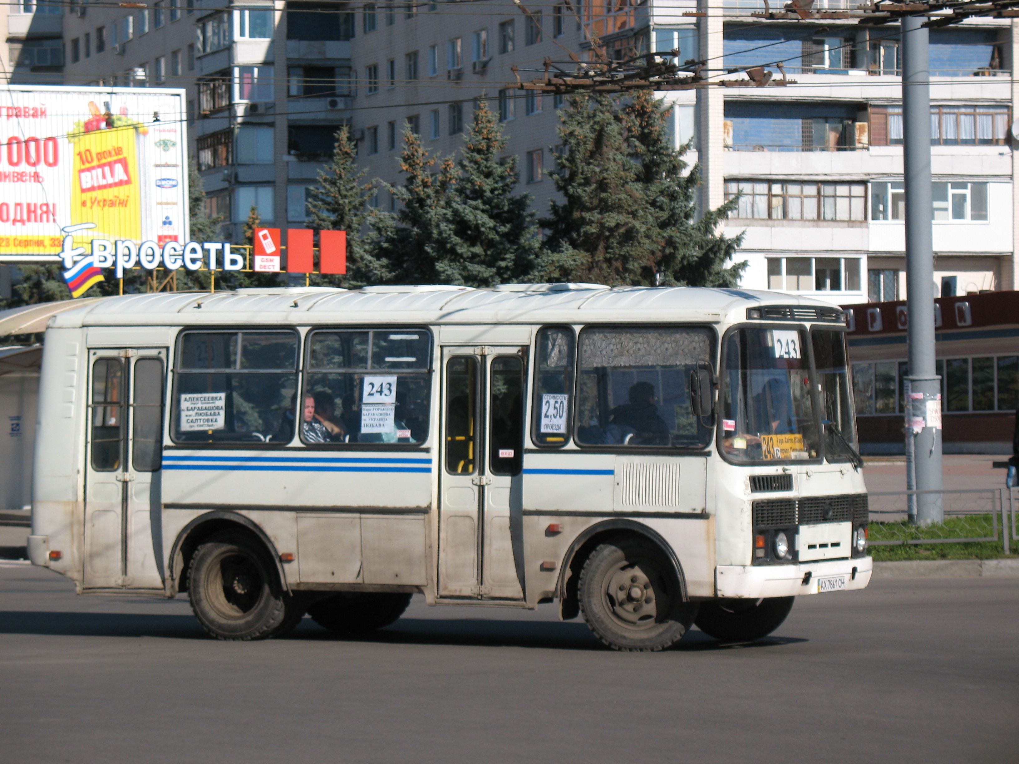 Kharkov City. Kharkov bus PAZ-3205 #243.